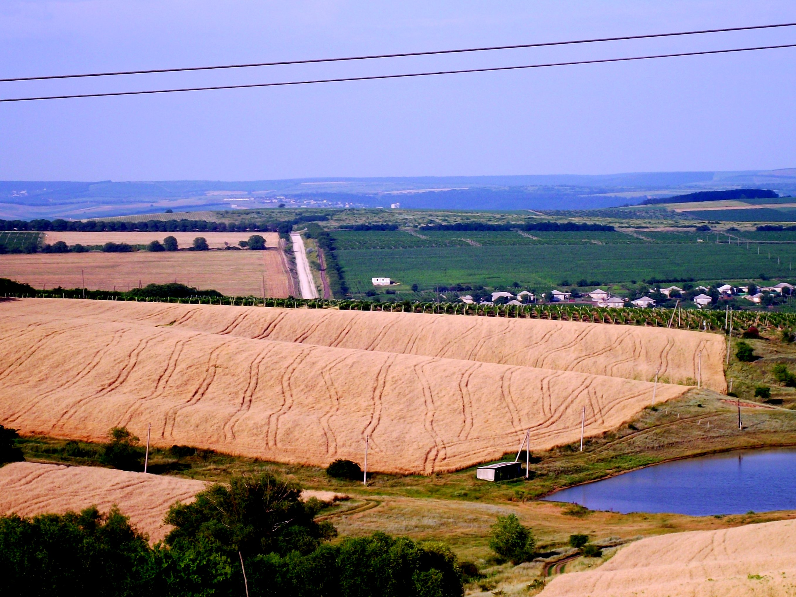 Unnamed Road, Mereni, Moldova